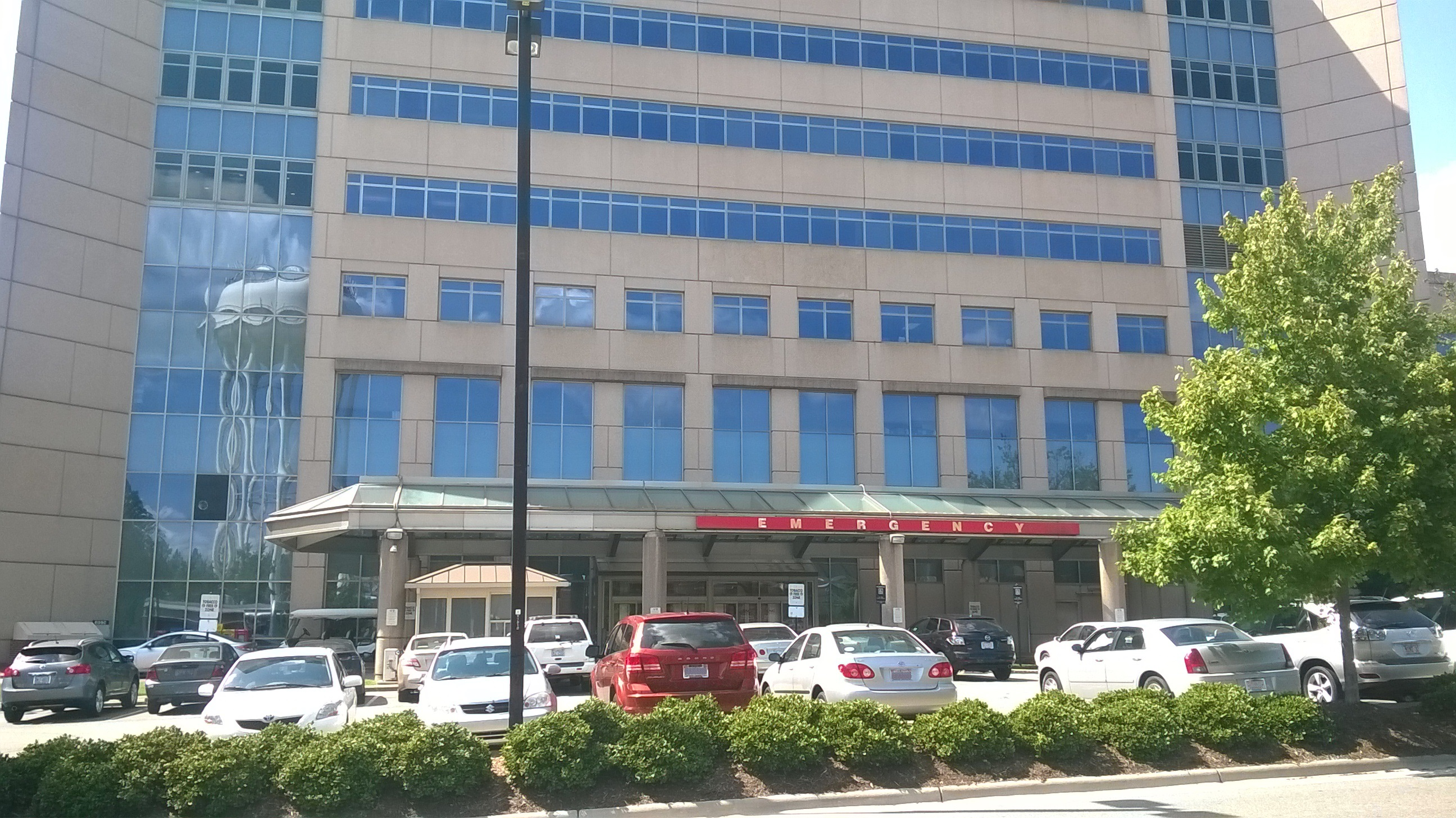 UNC Hospitals Emergency Room, Chapel Hill, North Carolina, United States